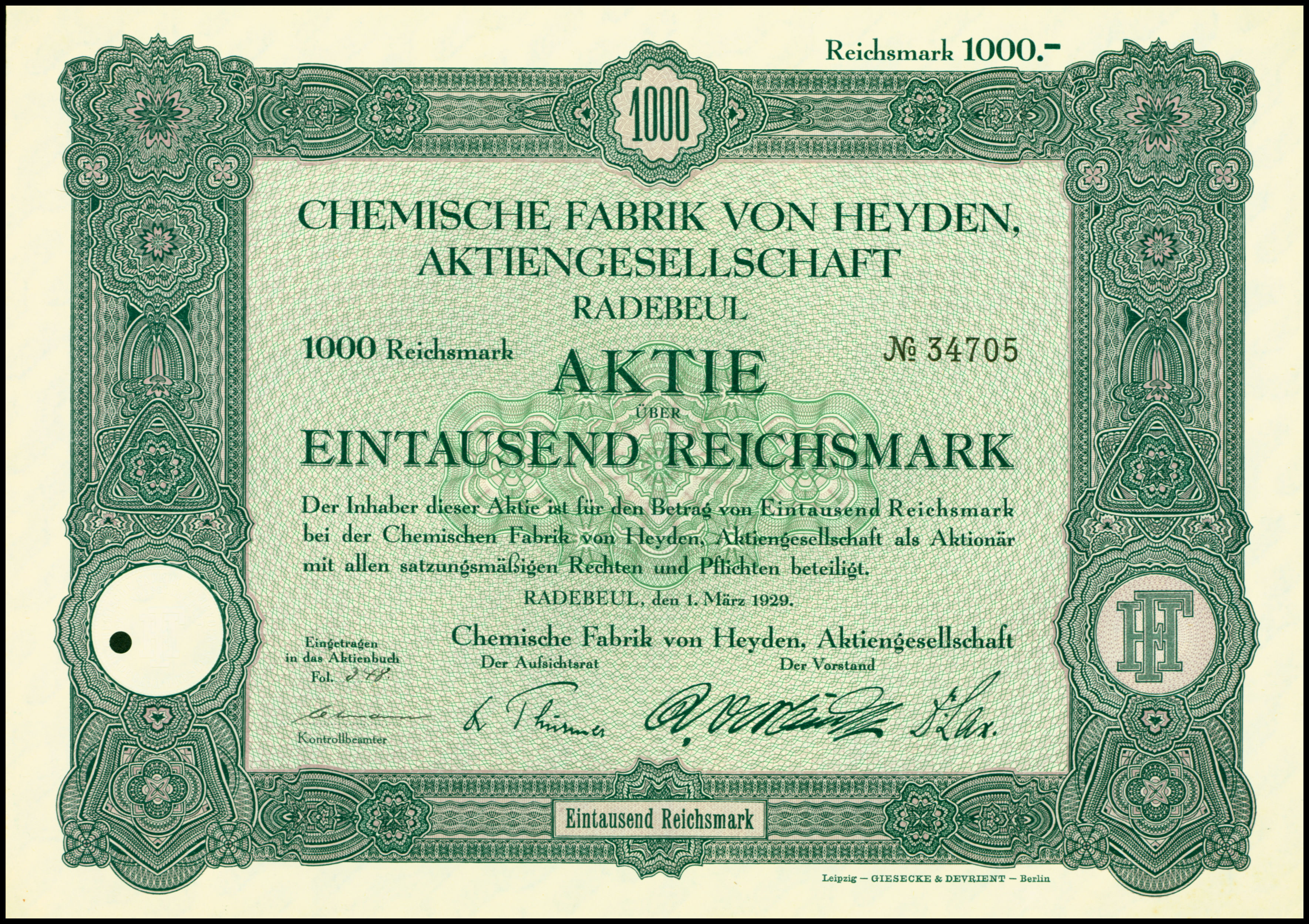 Share of the Chemische Fabrik von Heyden AG, issued 1. March 1929